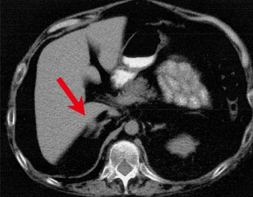 Adrenal CT-scan in primary pigmented nodular adrenocortical disease (PPNAD). A micronodule is visible on the external part of the left adrenal on the CT-scan shown (see red arrow).